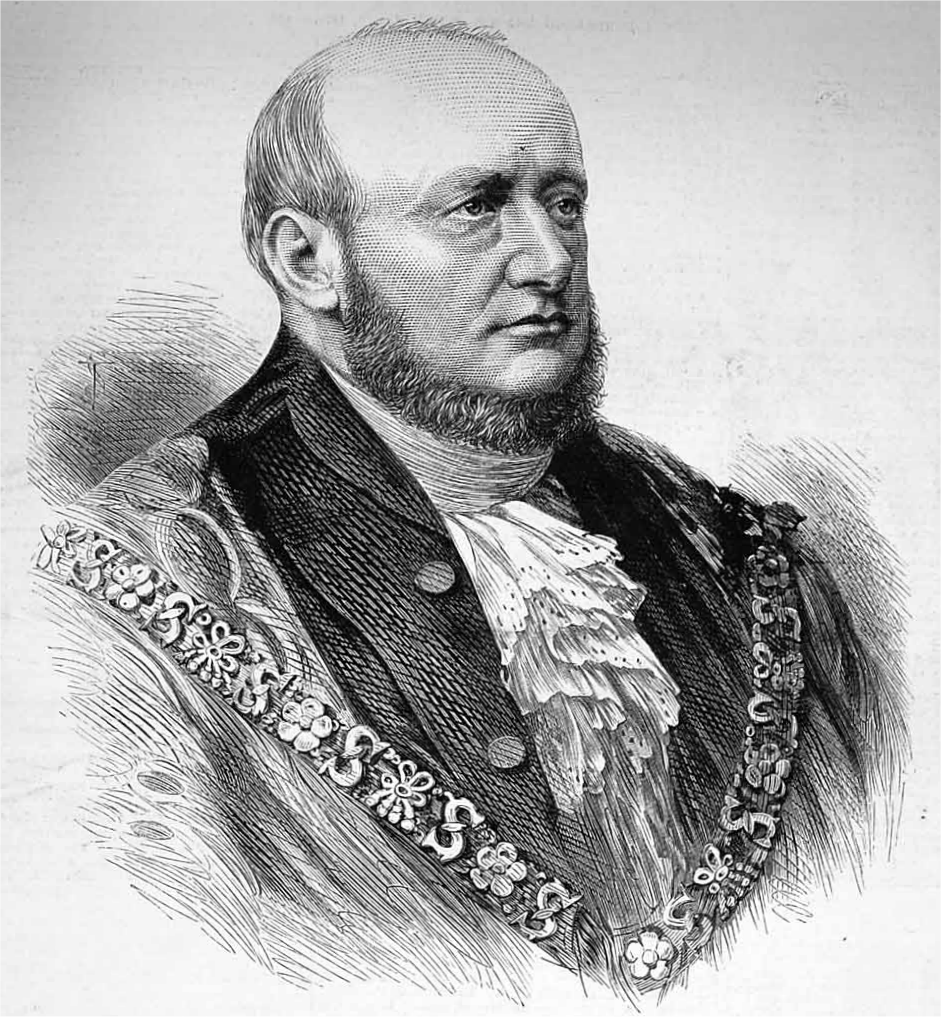 The new Lord Mayor of London (Mr. Alderman Stone). The Illustrated London News, 7 Novemver 1874.